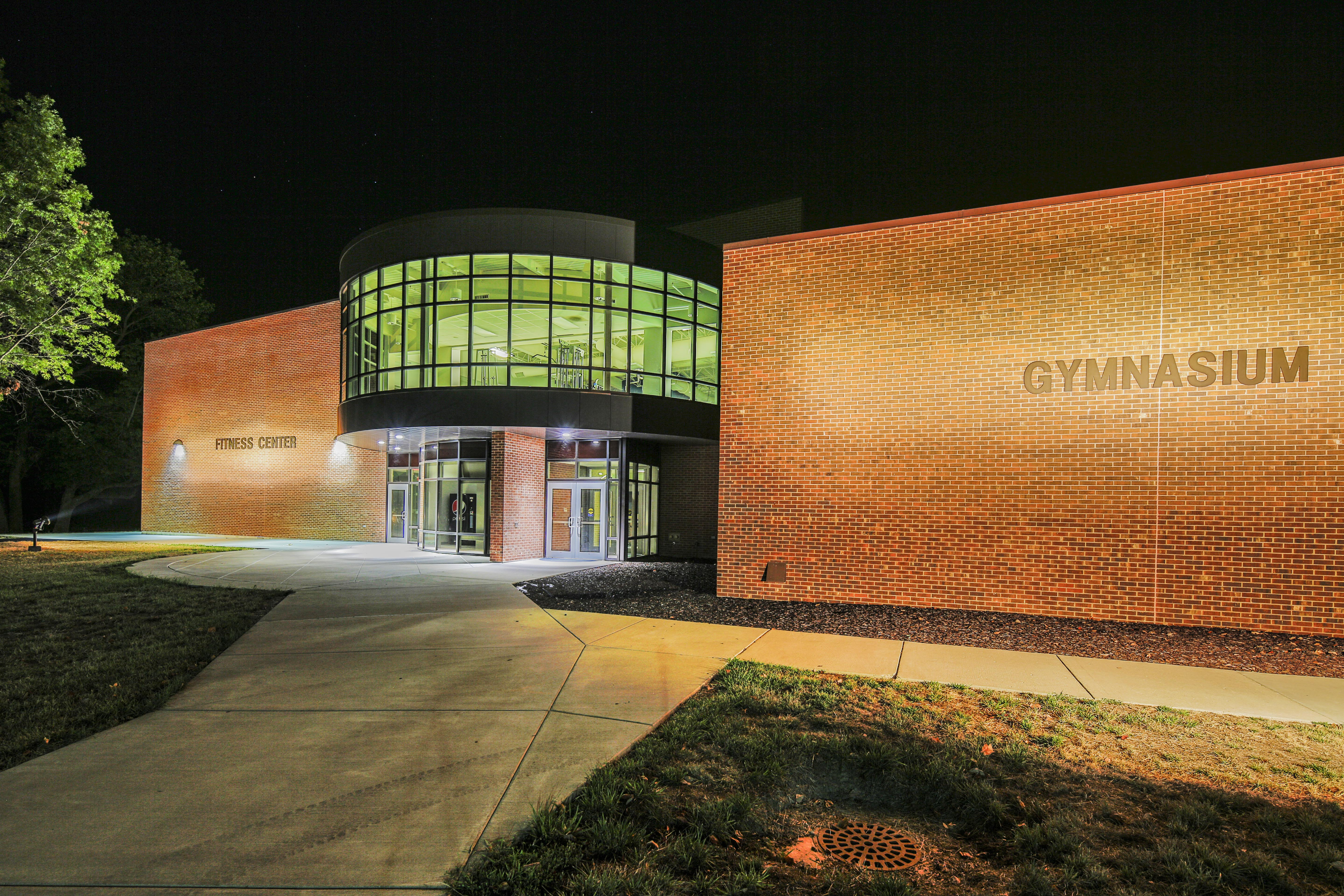 Kaskaskia College Fitness Center and Gym Summer 2012, Photo by ThePhotoRun's Jason Runyon